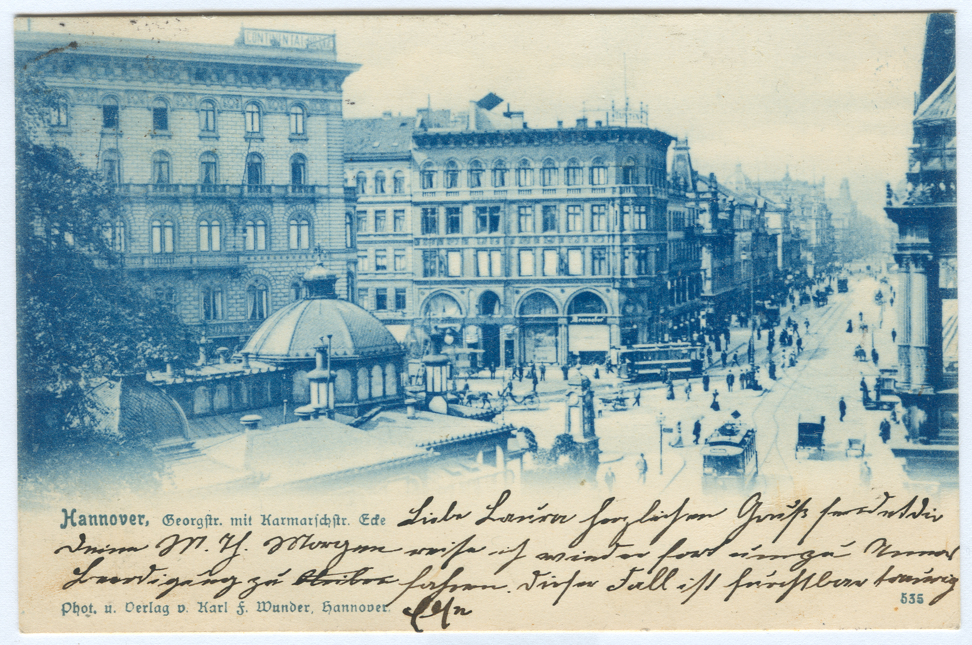 Hanover. Georgestrasse and Karmarschstrasse (with Café Kropke)